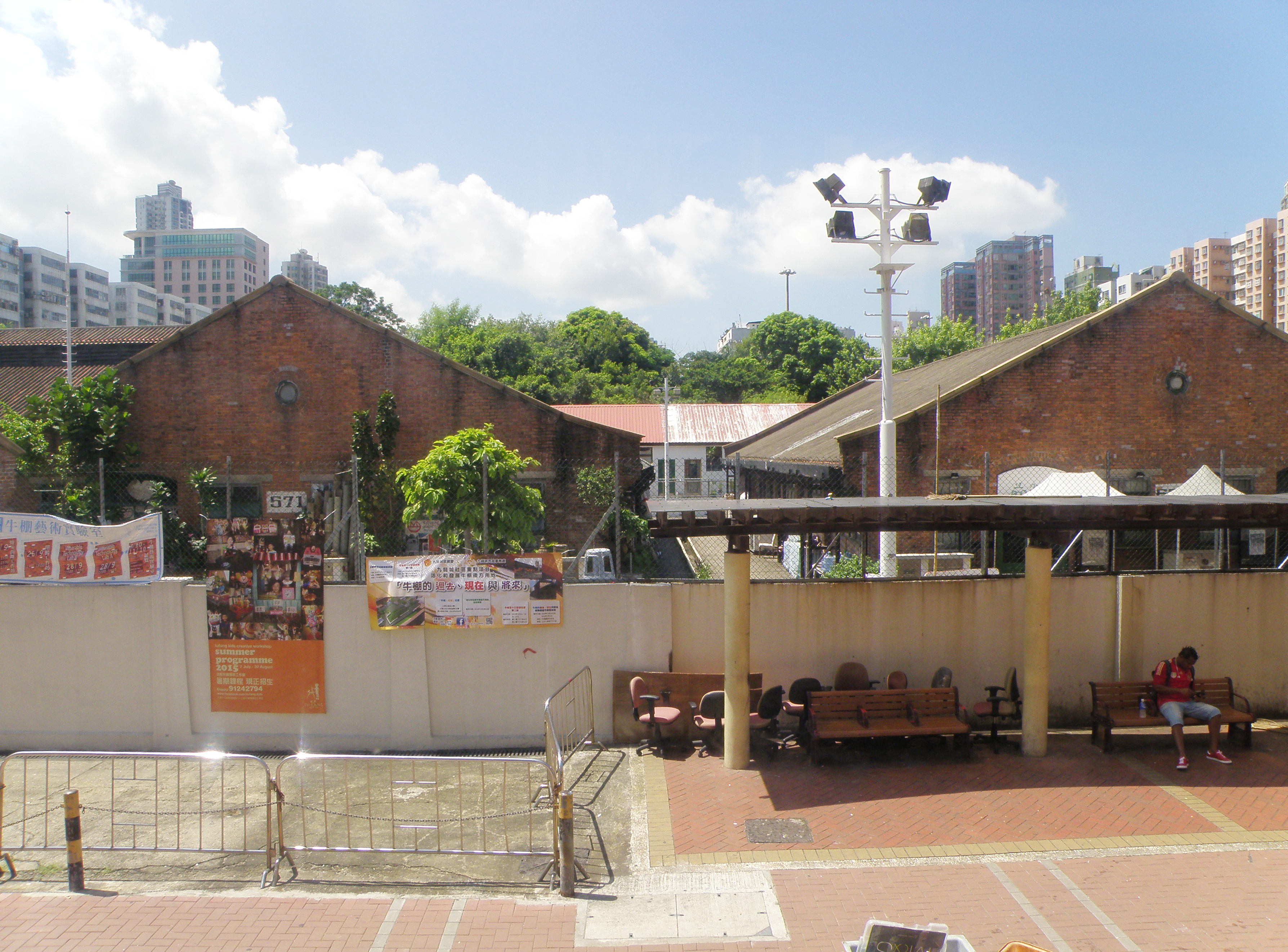 Cattle Depot Artists Village in To Kwa Wan, Hong Kong.